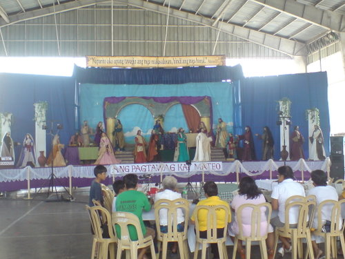 The main tableau of the 2010 Pabasang Bayan in Morong, Rizal. Pabasang bayan 2010 "The calling of Matthew the tax collector in Morong Rizal gymnasium c/o RECAMADERO